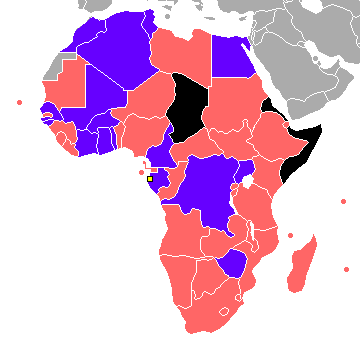 Status of countries with respect to 2017 Africa Cup of Nations: Qualified for ACN finals Failed to qualify for ACN finals Did not enter ACN Not an associate member of CAF